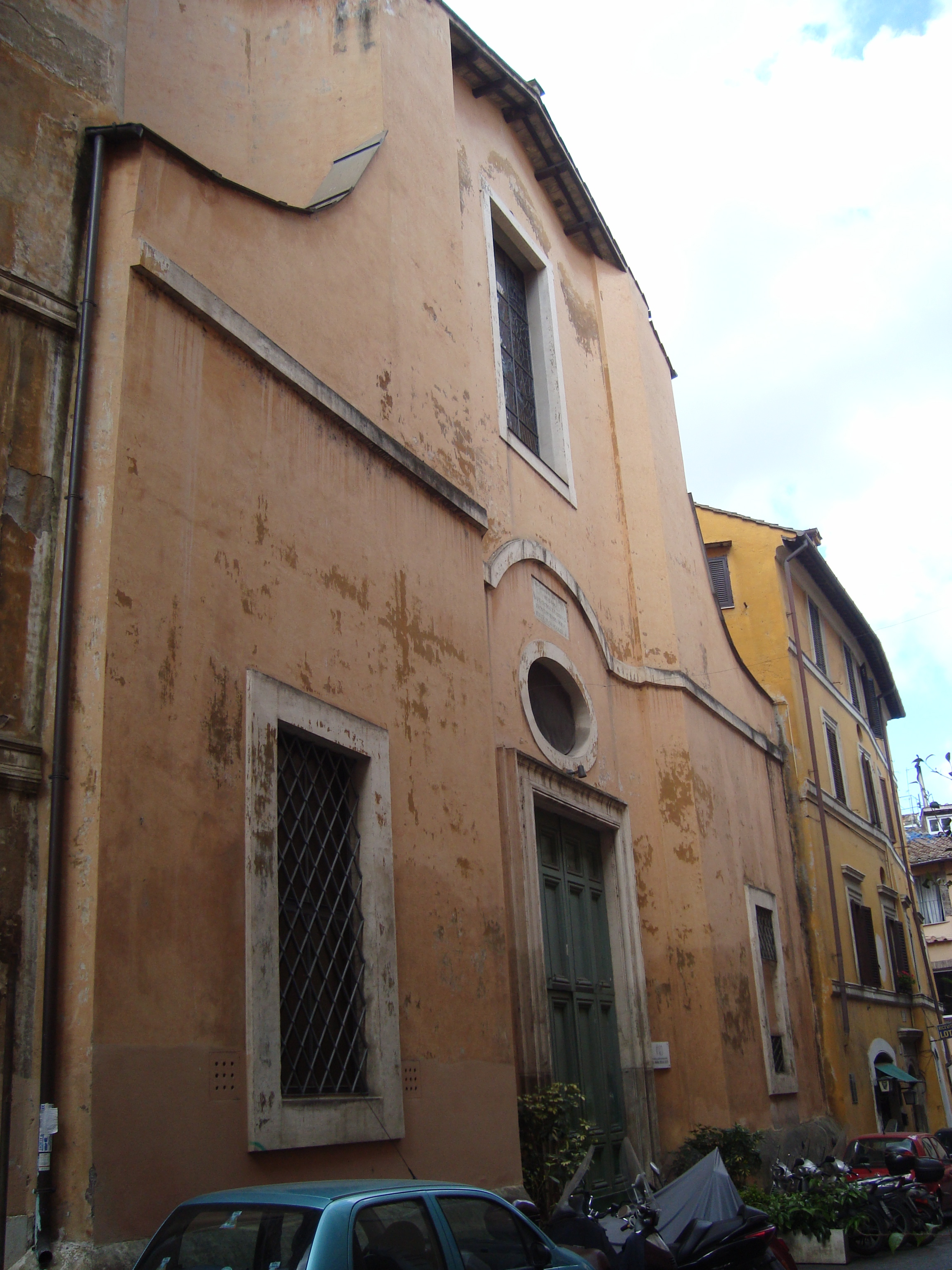 General view of the church Santa Maria della Luce in via della Luce, Trastevere, Rome